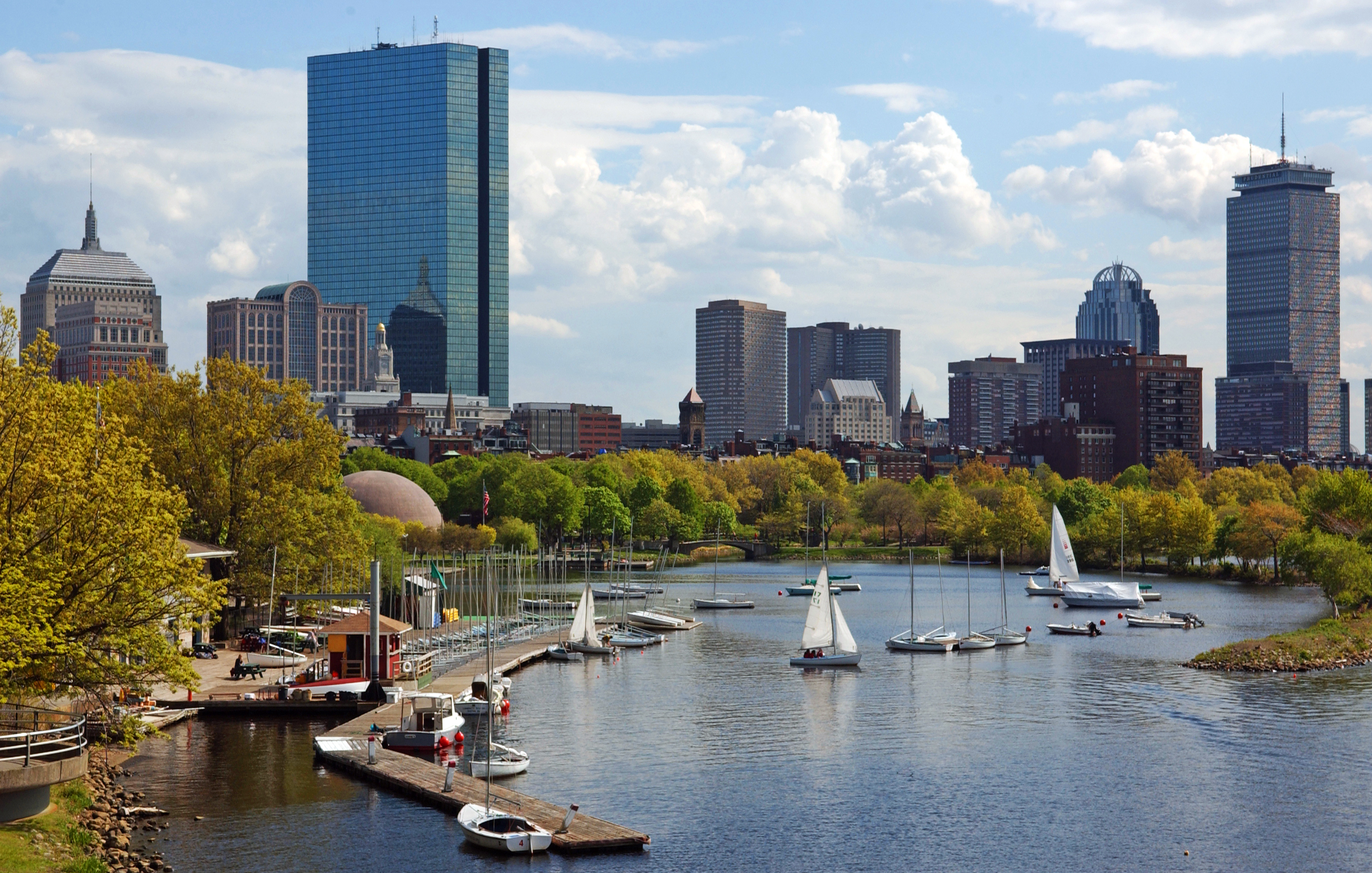 Image of Boston's Back Bay neighborhood as situated along the tree-lined esplanade of the Charles River. The sailboats and docks shown in the foreground are a part of Community Boating, the oldest continuously operating community sailing program in the US. The brown-colored Hatch Shell partly obscured among the trees is Boston's Fourth of July venue for the Boston Pops Orchestra, and associated fireworks show. Featured prominently in the skyline, (on the left) is the "old John Hancock building" and the new taller John Hancock Tower, in addition to 111 Huntington Avenue and the Prudential Tower on the right. This image is a straightened version of Ian Howard's original work at ISH WC Boston1.jpg.jpg